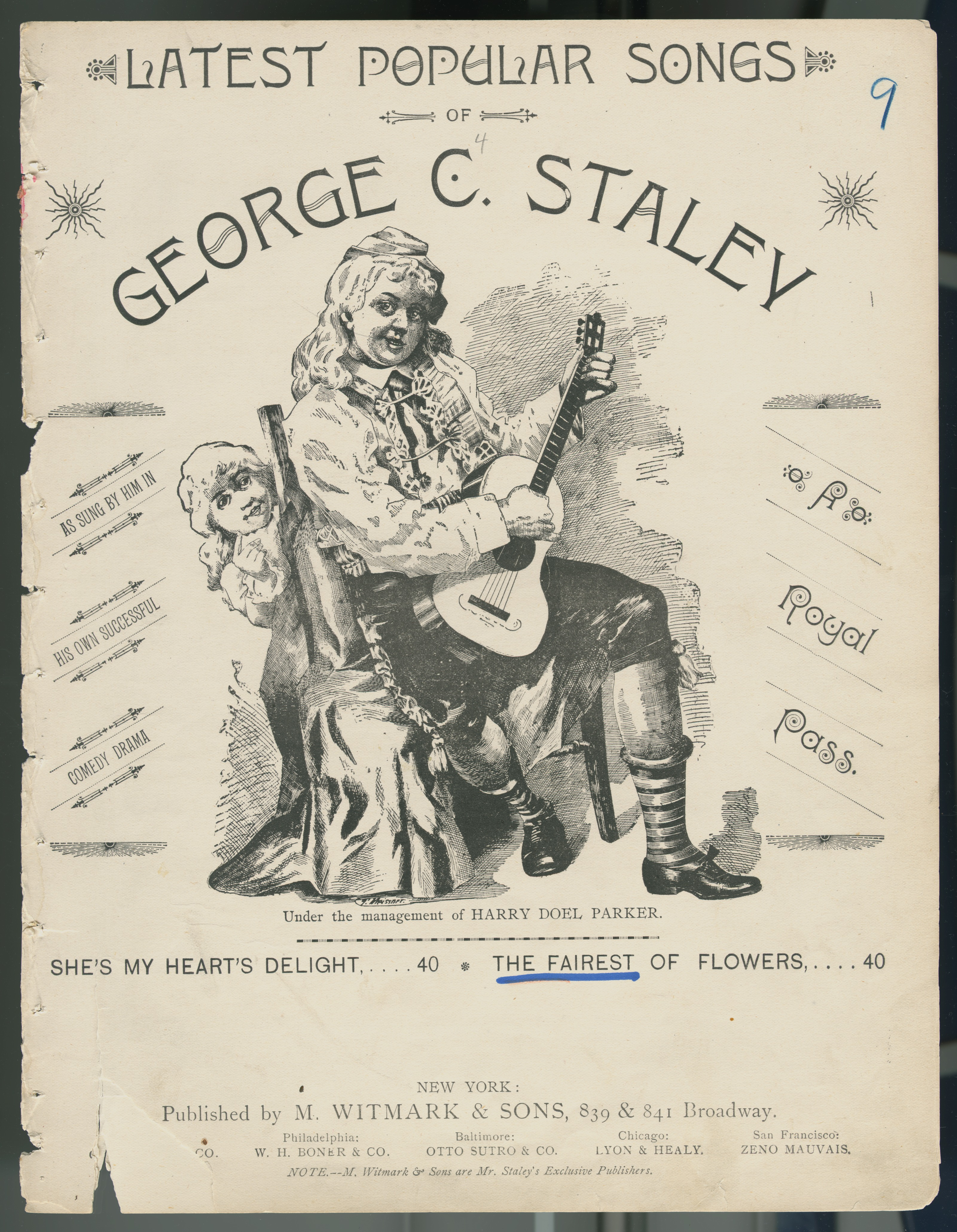 Cover illustration shows a drawing of a man seated in a chair playing the guitar, while a woman peeks from behind him. Statement of responsibility : George C. Staley.